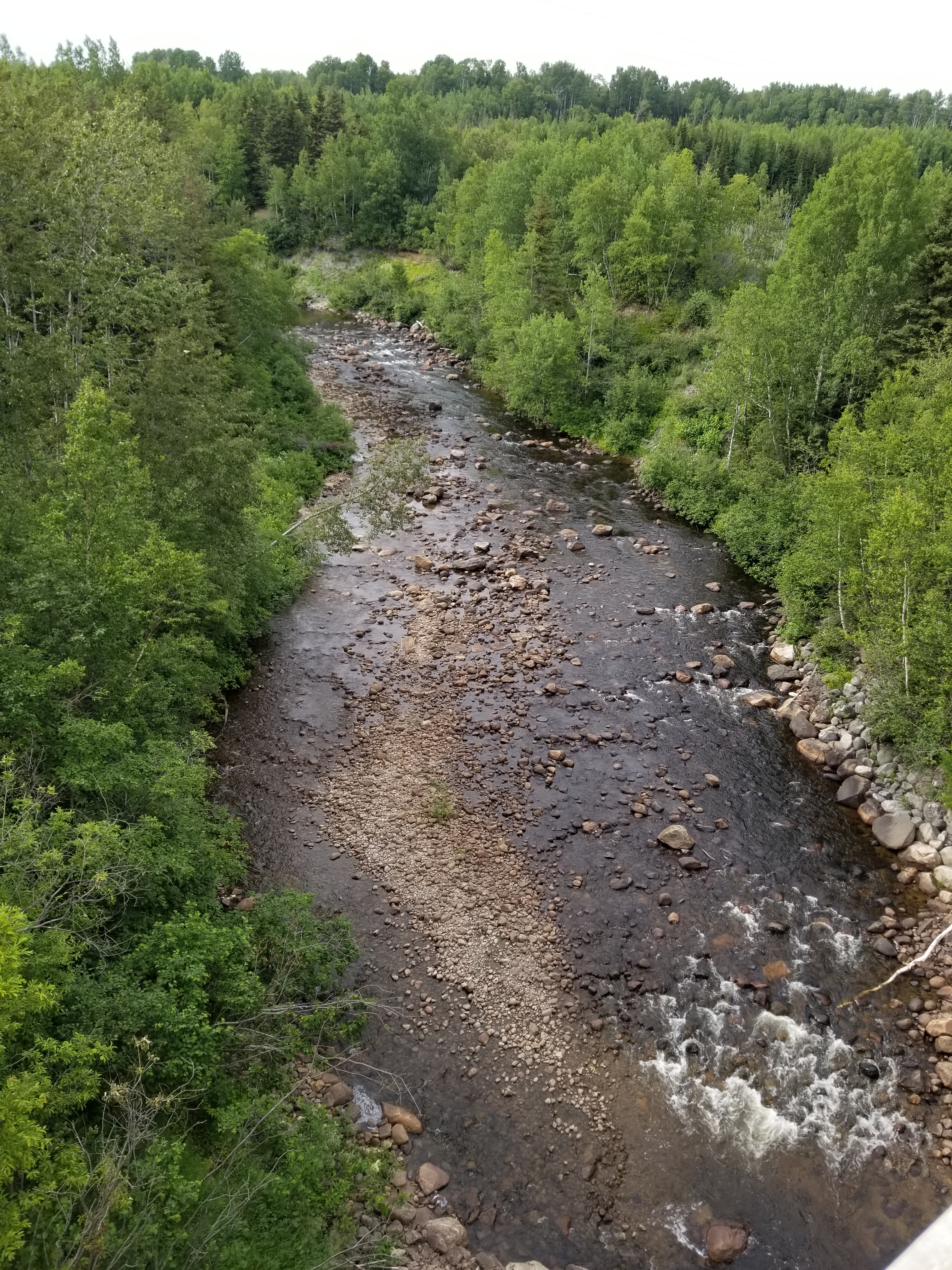 View upstream of the "Little Escoumins River" from the Highway 138 bridge.